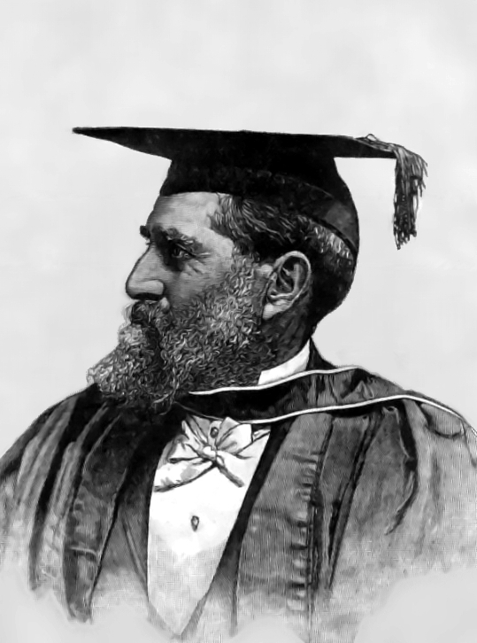 Joseph Ostler, aka C. Frusher Howard, FSSc (fl.1874-1890s), who wrote Howard’s California Calculator, The Newest, Quickest and Most Complete Instructor for All Who Desire to be Quick at Figures (San Francisco, 1874). He is wearing the gown and hood signifying his fellowship of the Society of Science, Letters and Art, London.